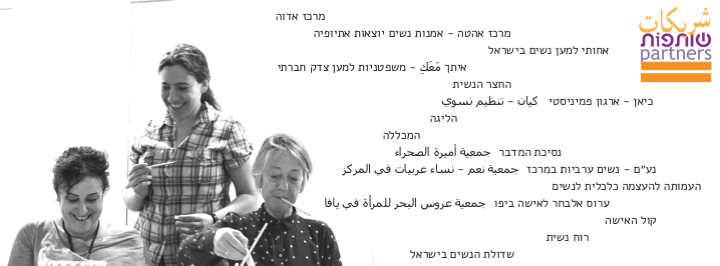 three women smiling, full names of member organizations of coalition, coalition logo